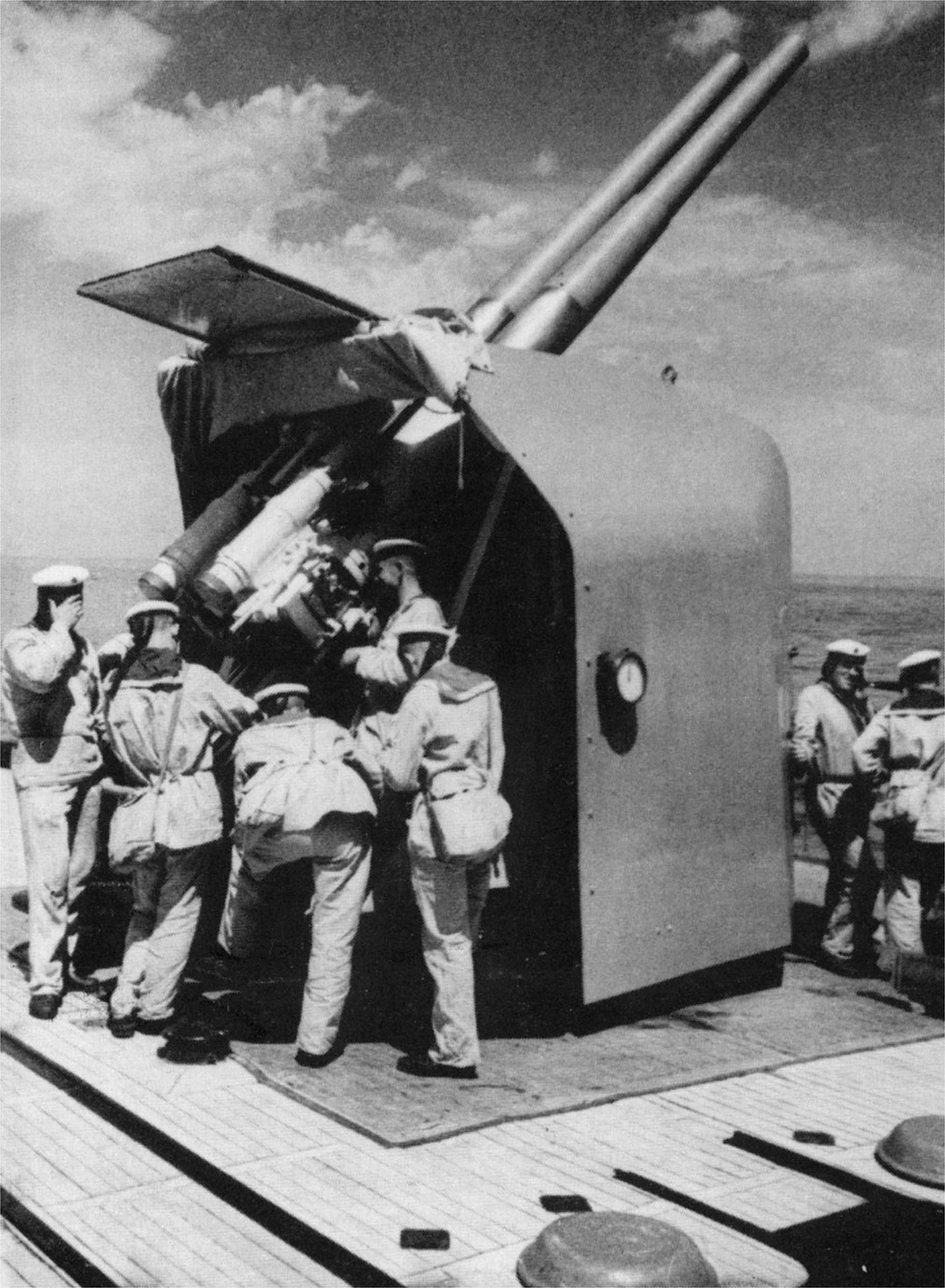 Soviet 100 mm anti-air gun Minizini on cruiser Krasnyy Kavkaz.